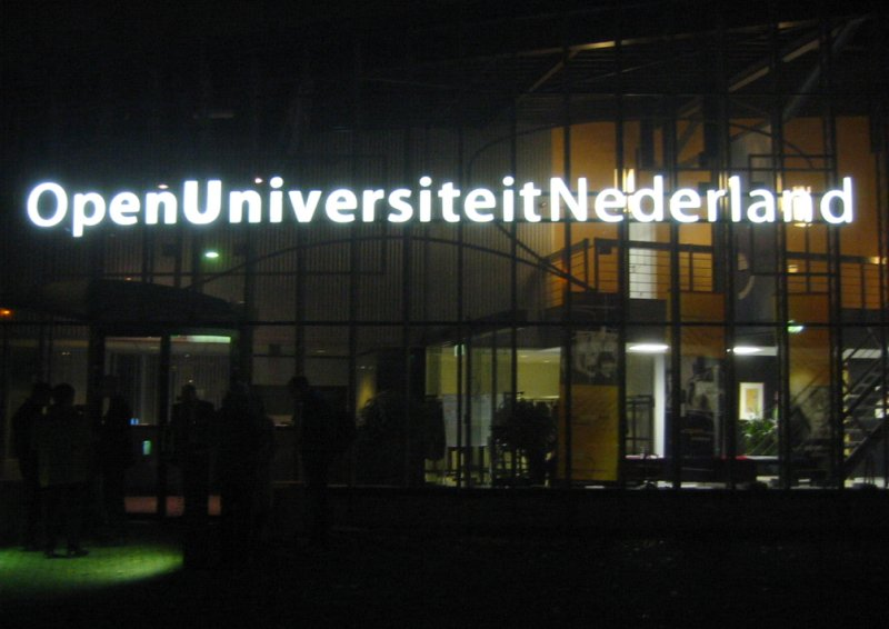 University in the Netherlands (Heerlen)